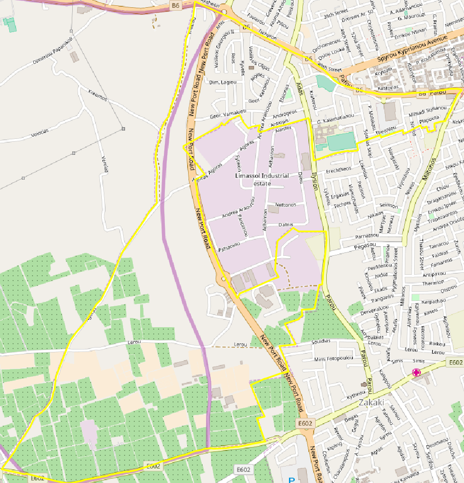 Map of Archangel Michael (Kato Polemidia).